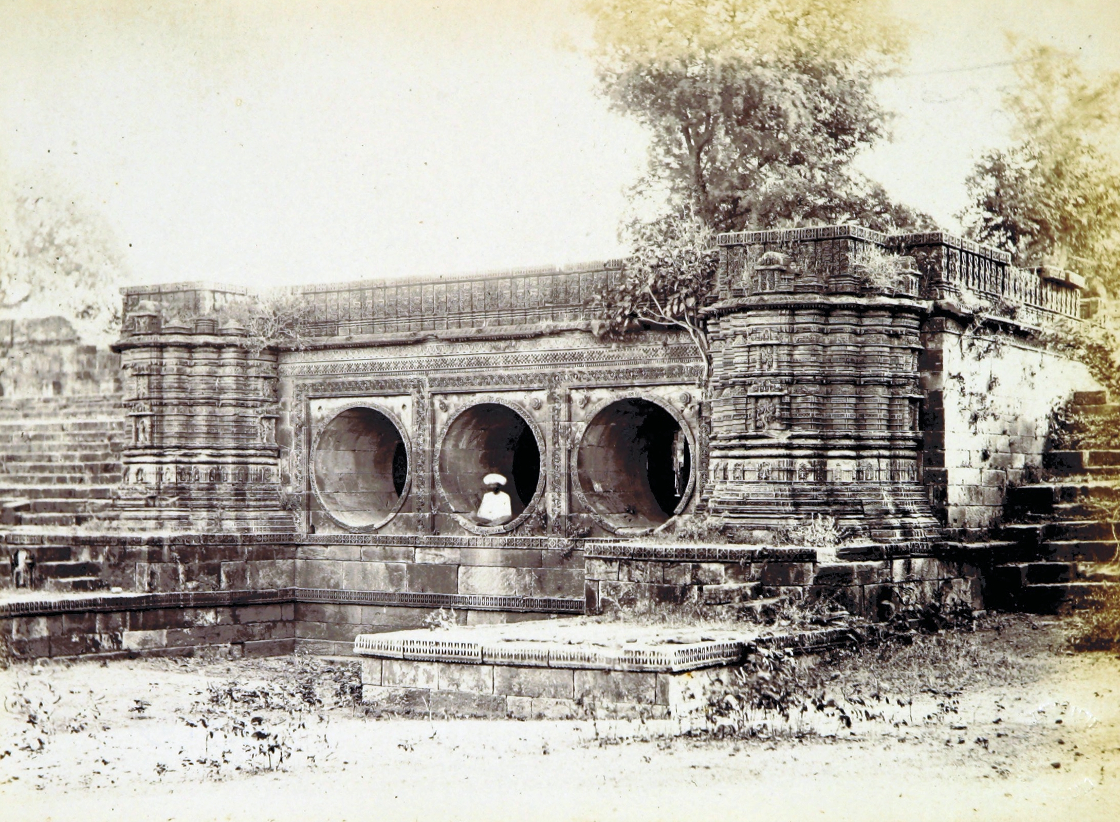 Image taken from: Title: "Architecture at Ahmedabad, the Capital of Goozerat, photographed by Colonel Biggs, ... With an historical and descriptive sketch, by T. C. H., ... and architectural notes by J. Fergusson, etc" Author: HOPE, Theodore Cracraft - Sir, K.C.S.I Contributor: BIGGS, Thomas. Contributor: FERGUSSON, James - Architect Shelfmark: "British Library HMNTS 10057.f.17.", "British Library OC V 6665" Page: 237 Place of Publishing: London Date of Publishing: 1866 Issuance: monographic Identifier: 001730119 Note: The colours, contrast and appearance of these illustrations are unlikely to be true to life. They are derived from scanned images that have been enhanced for machine interpretation and have been altered from their originals. If you wish to purchase a high quality copy of the page that this image is drawn from, please order it here. Please note that you will need to enter details from the above list - such as the shelfmark, the page, the book's volume and so on - when filling out your order. Following this or the link above will take you to the British Library's integrated catalogue. You will be able to download a PDF of the book this image is taken from, as well as view the pages up close with the 'itemViewer'. Click on the 'related items' to search for the electronic version of this work. Click here to see all the illustrations in this book and click here to browse other illustrations published in books in the same year. Please click on the tags shown on the right-hand side for other ways to browse the illustrations.